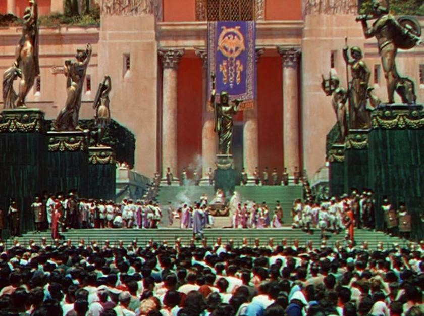 Scene from Quo Vadis - trailer (cropped screenshot)